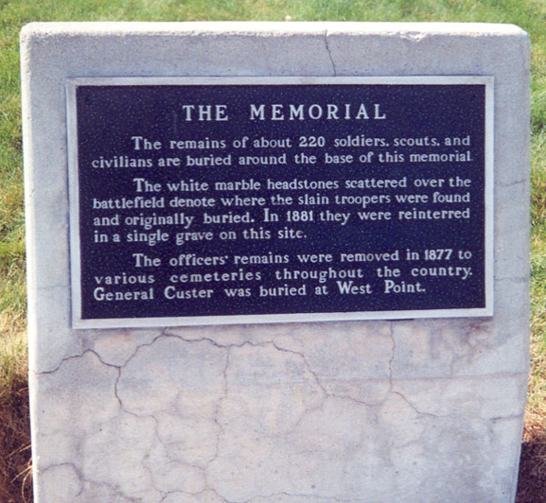 Little Bighorn headstone by Durwood Brandon.